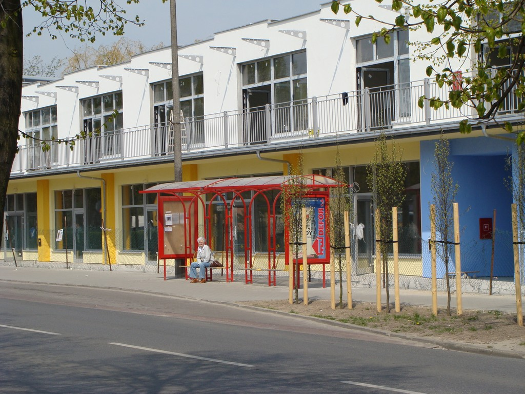 Śrem, bus stop at Chłapowski Street.